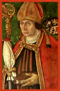 Bischof Heinrich von der Pfalz (1487-1552), Bischof von Worms, Utrecht und Freising, Fürstpropst von Ellwangen